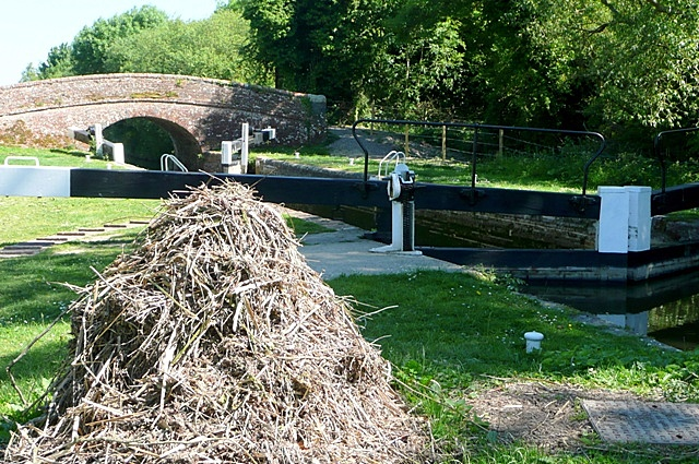 Brunsden Lock Lock 77 with a fall of 4 feet 11 inches. The pile is weed that has been hauled out from around the gates and the paddles. I hope no one comes and puts it back in again.